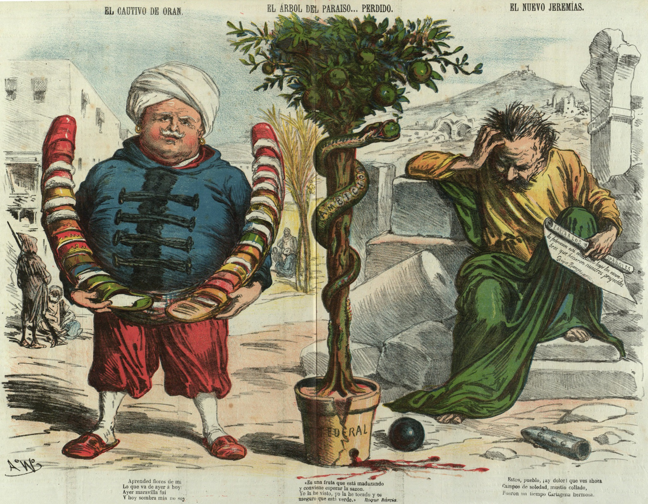 The captive of Oran — The tree of paradise... lost — The new Jeremiah.